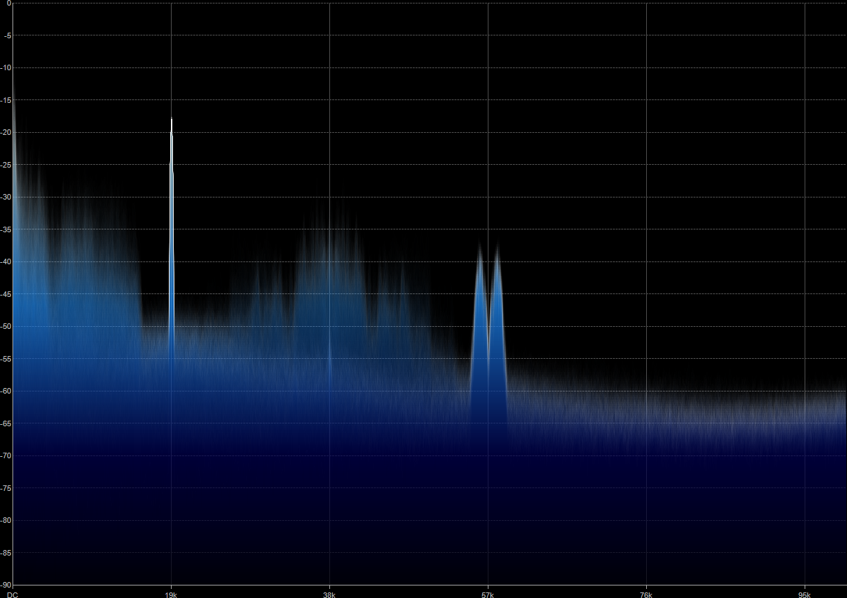 Spectrum of a German FM stereo station with RDS. Created using SDR#, Gavin Kendall's Auto Screen Capture, IrfanView and self-written software.